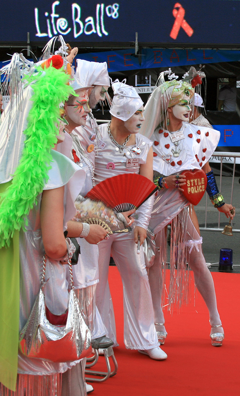 Life Ball 2008: Sisters of Perpetual Indulgence as 'Style Police' on the red carpet.